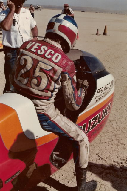 Don Vesco on his "Project 200" high-mileage street legal motorcycle Original title: Shroud-Right-Side